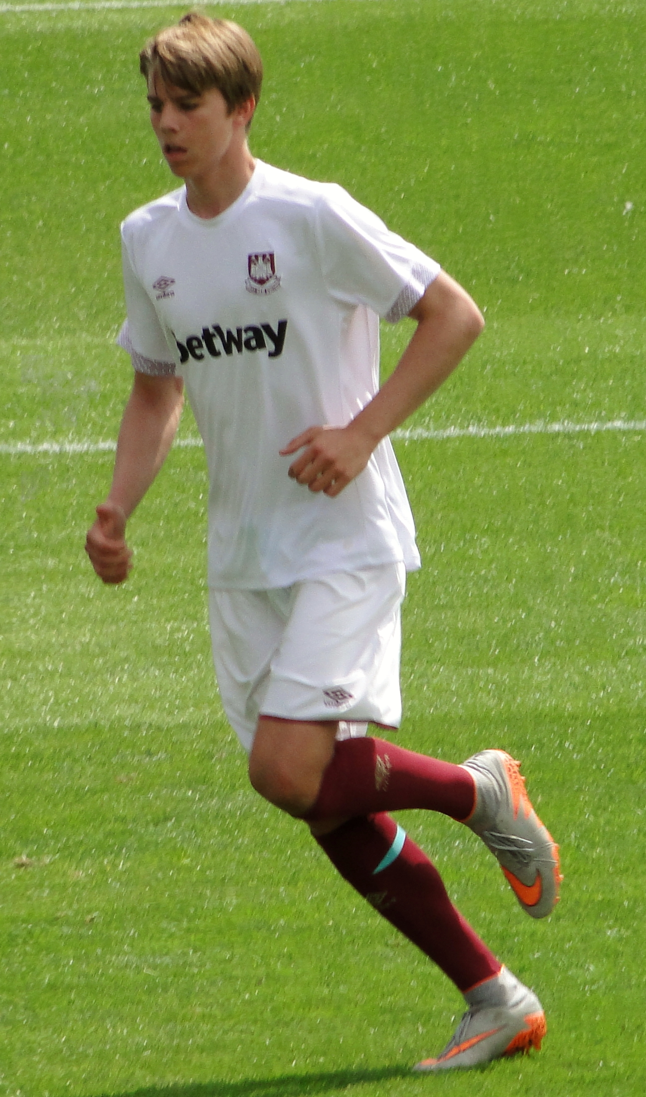 West Ham player, Martin Samuelsen, warming-up before his debut game for the club, against Peterborough United, London Road, Peterborough.